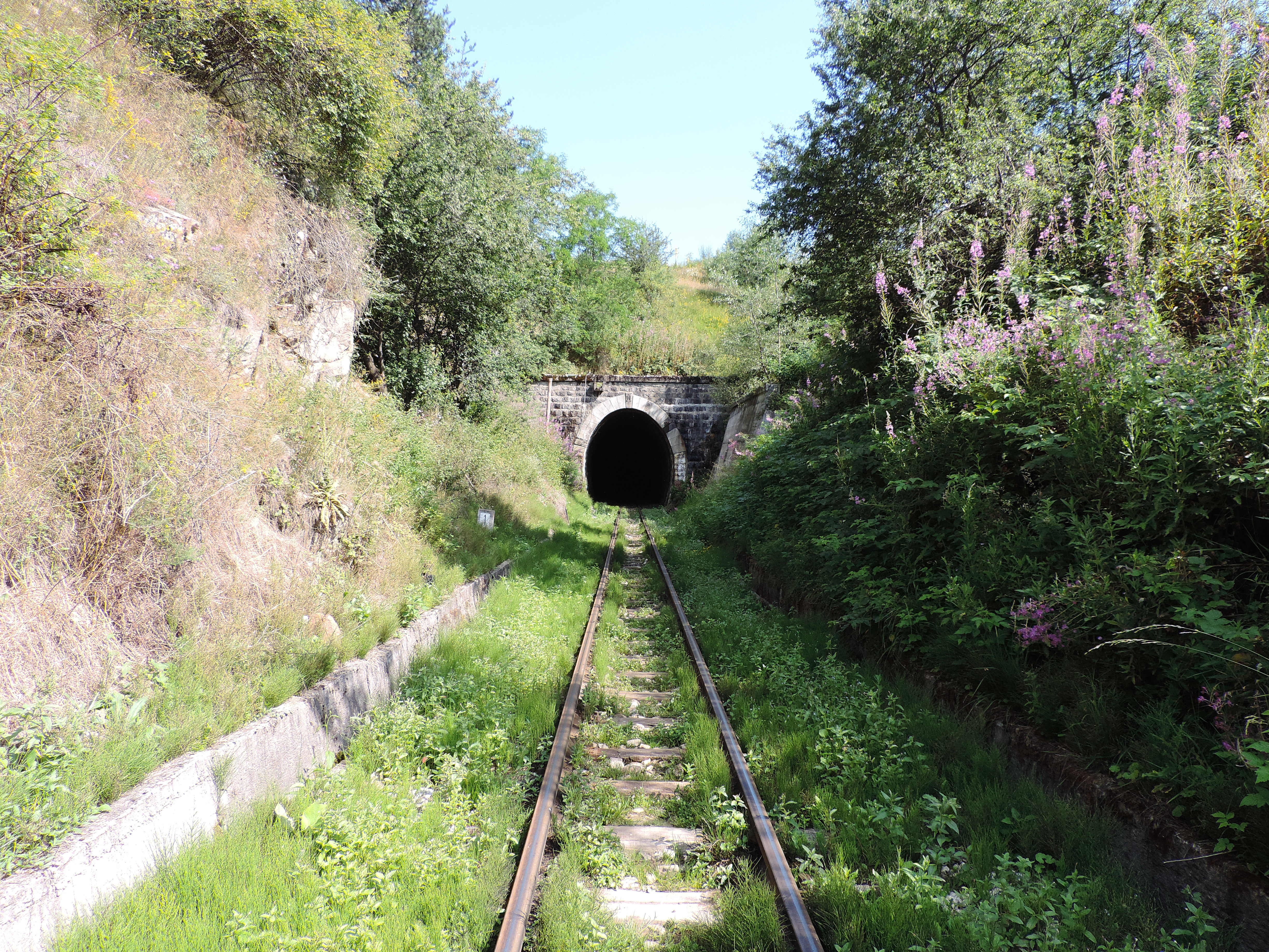 Avramovo Railway Station, Septemvri-Dobrinishte narrow gauge line, Bulgaria.